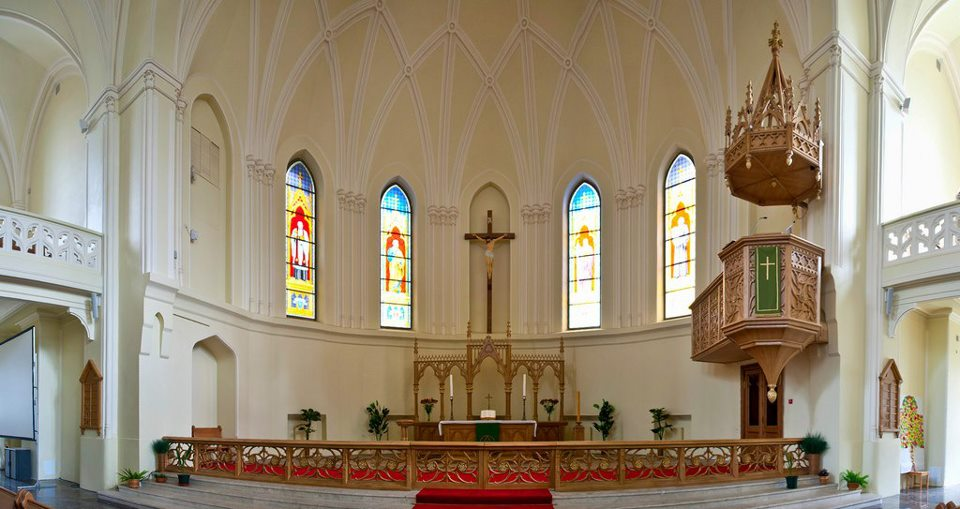 inside outlook